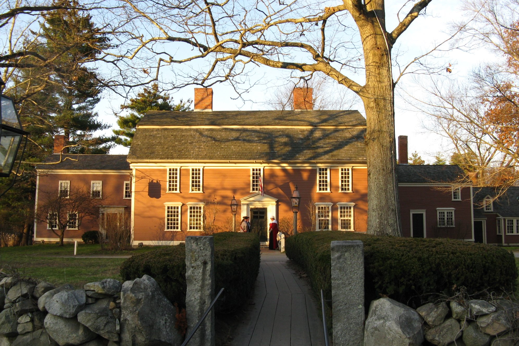 Wayside Inn, Sudbury Massachusetts, November 2009